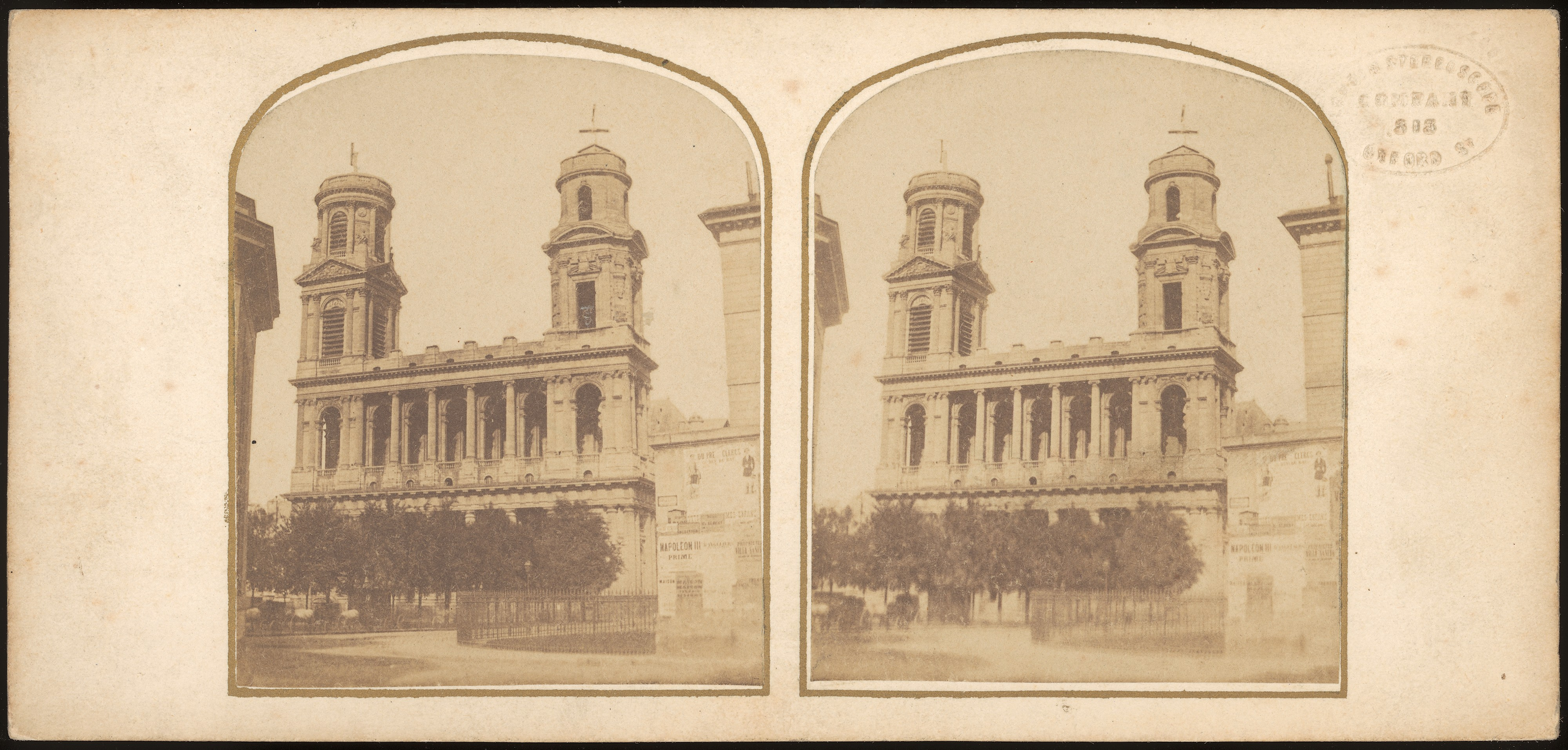 Stereographs; Photographs